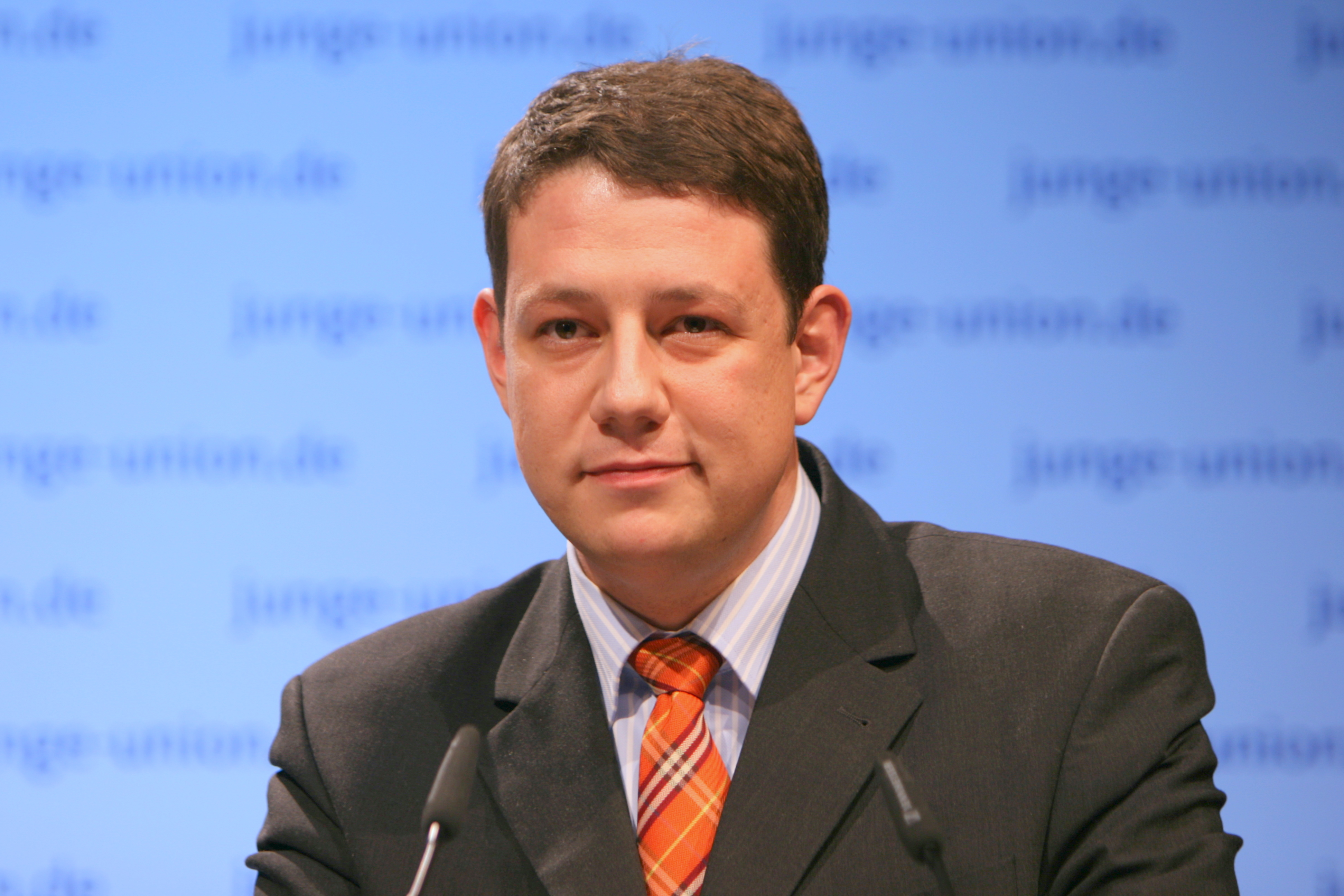 Philipp Mißfelder MP, chair of the young christian demokrats in Germany